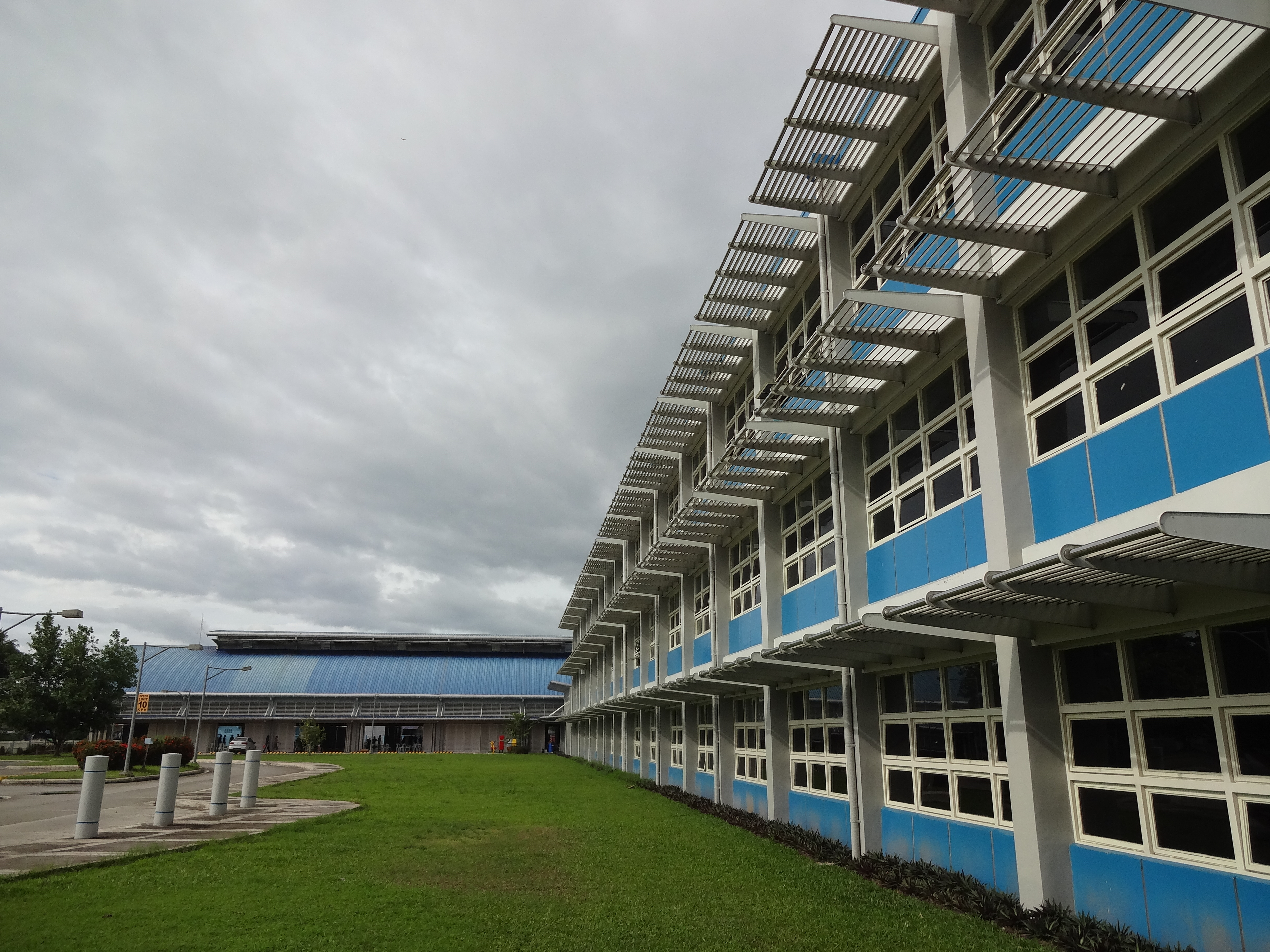 This is my own work. The FSUU Morelos Campus Elementary Building.